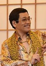 Minister for Foreign Affairs of Japan Fumio Kishida and comedian Daimaō Kosaka posing for photos.